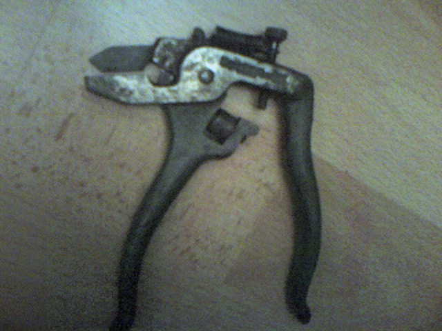 saw set